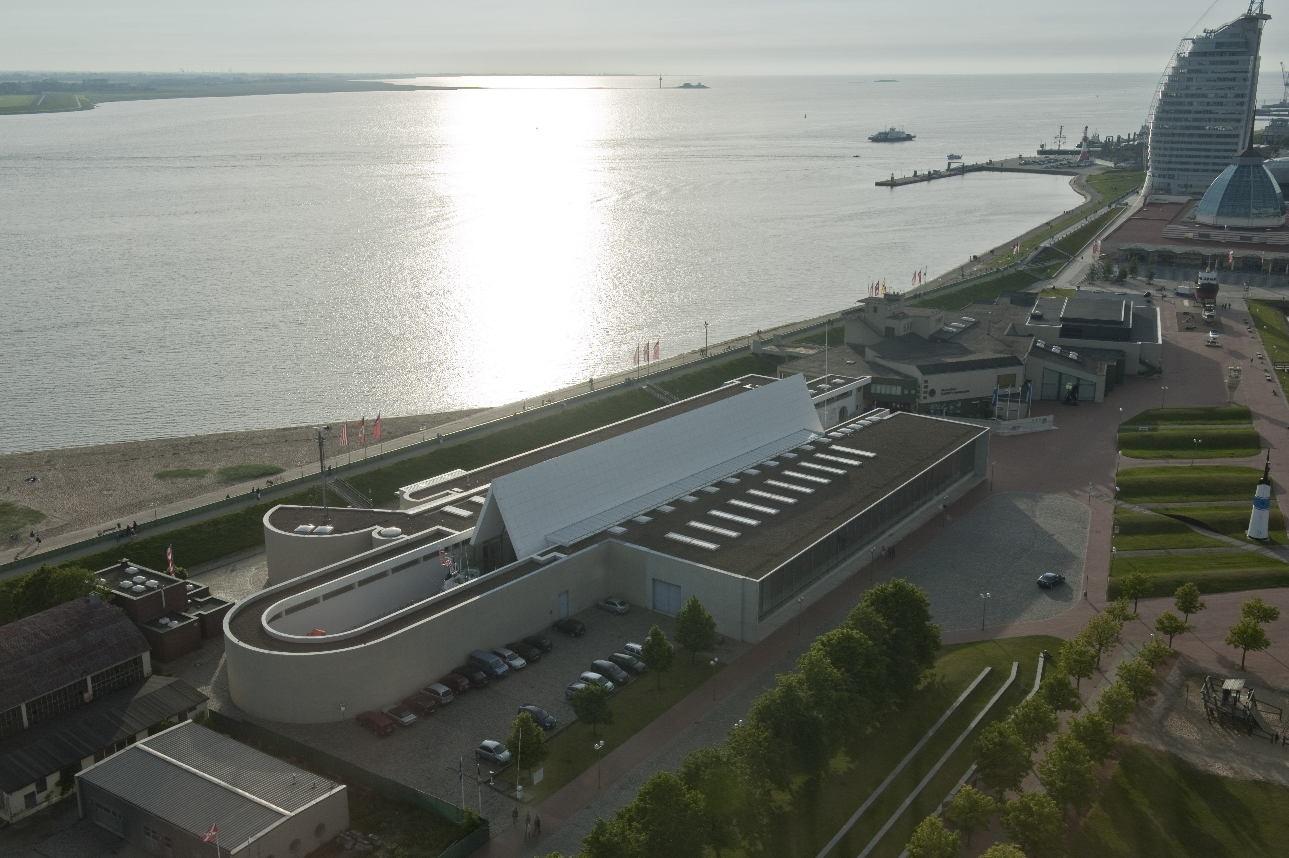 View from Richtfunkturm in Bremerhaven German Shipping Museum Native nameDeutsches SchifffahrtsmuseumParent institutionLeibniz AssociationLocationHans-Scharoun-Platz 1 27568 Bremerhaven GermanyCoordinates53° 32′ 24.36″ N, 8° 34′ 37.2″ E Established5 September 1975Web pageDeutsches SchifffahrtsmuseumAuthority control : Q455354 VIAF: 128715457 ISNI: 0000 0001 2256 5668 LCCN: n50065866 NLA: 35745010 GND: 2008892-9 WorldCat